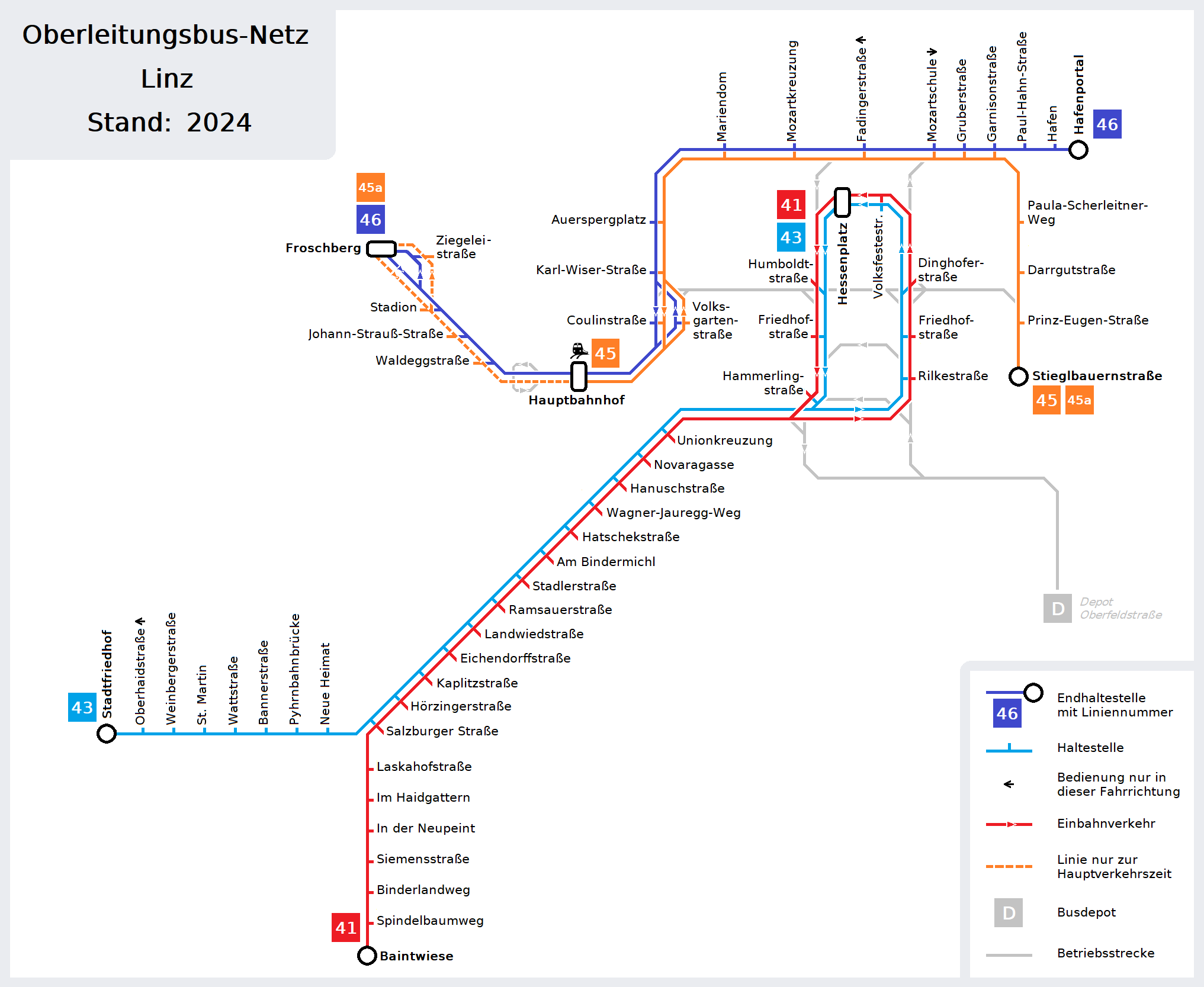 This is a map of the trolleybuses and the unused routes in Linz